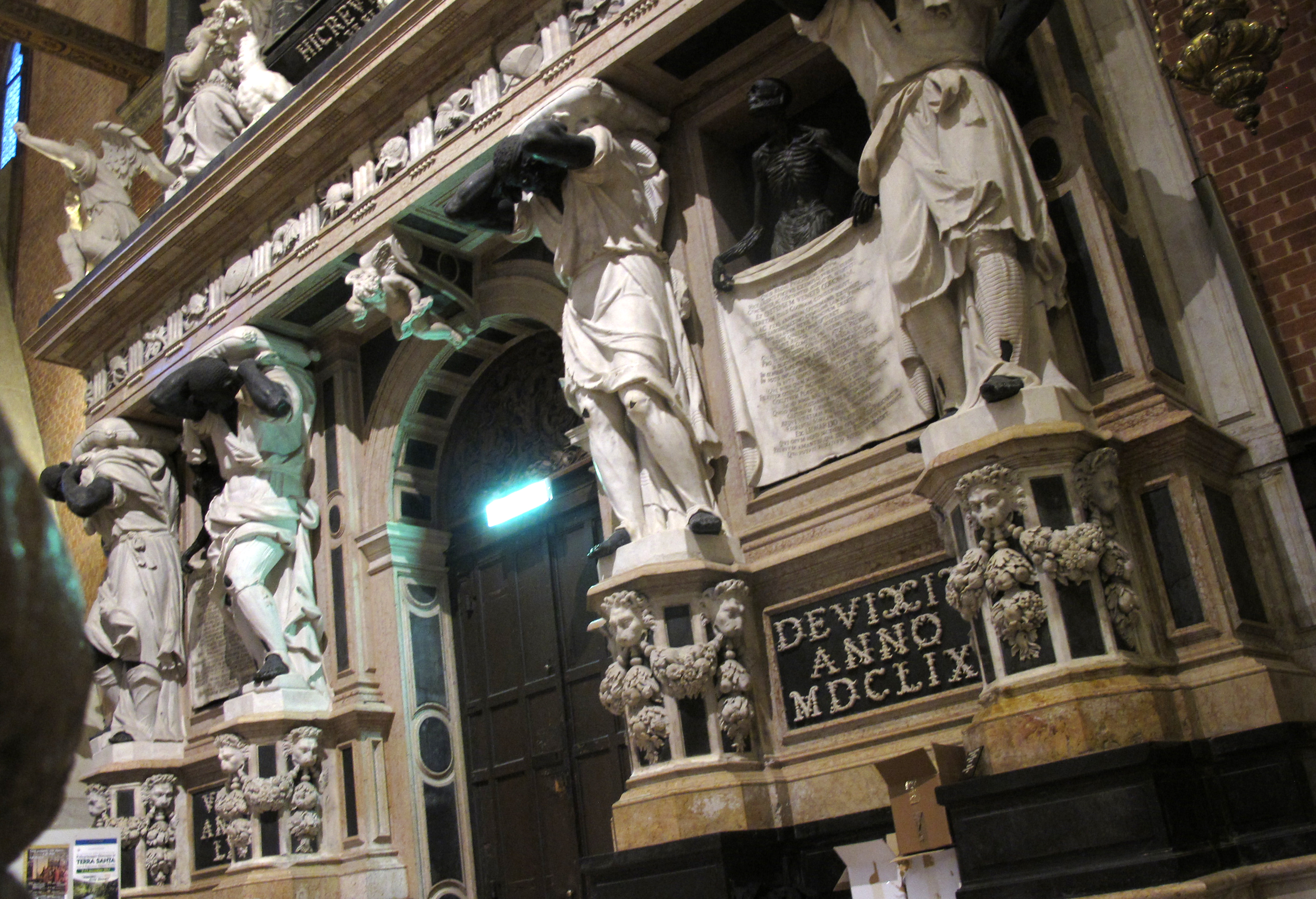 by Melchior Barthel, at the funeral monument Chiesa dei Frari, Venice.